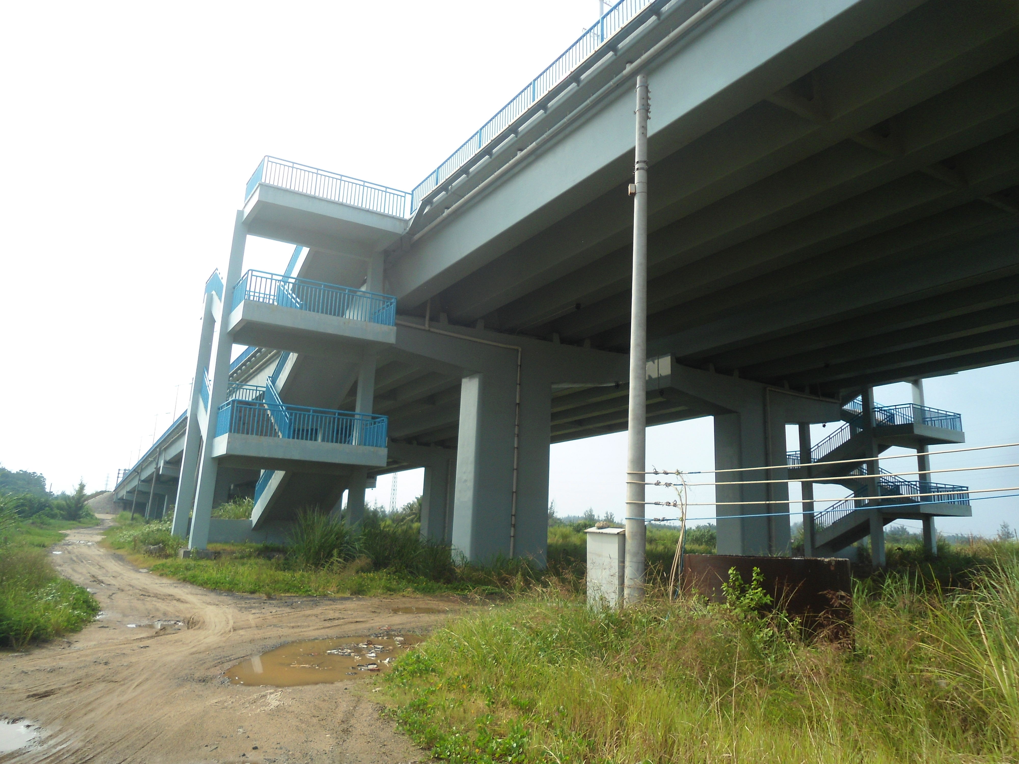 Qinglan Bridge abutment and stair access on soutwest side, Wenchange, Hainan, China